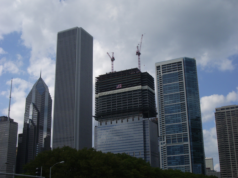 Blue Cross Blue Shield Tower under construction in Chicago